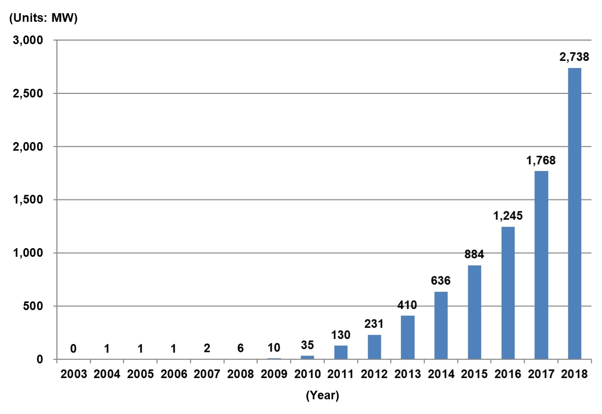 The picture is drawn by the author. Data source is from Bureau of Energy, Taiwan. Its license is "In order to facilitate the public to better utilize the website information, all of Bureau of Energy, Ministry of Economic Affairs’ publicly posted information and materials that are protected under copyright provisions may be reauthorized for public use without cost in a non-exclusive manner. The users are not limited to time and by region to reproduce, adapt, edit, publicly transmit or utilize with other methods, and as well as to develop various products or services (herein known as derivations). This authorization will not be retracted hereafter, and the users do not have to acquire any written or other methods of authorization from the Administration. However, when using it, the user should state the source."